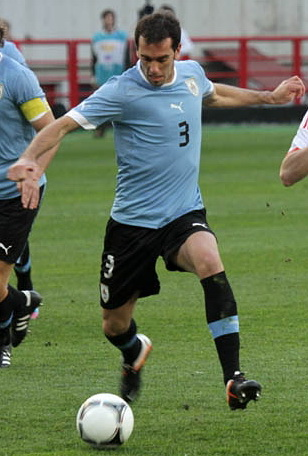 Diego Godín